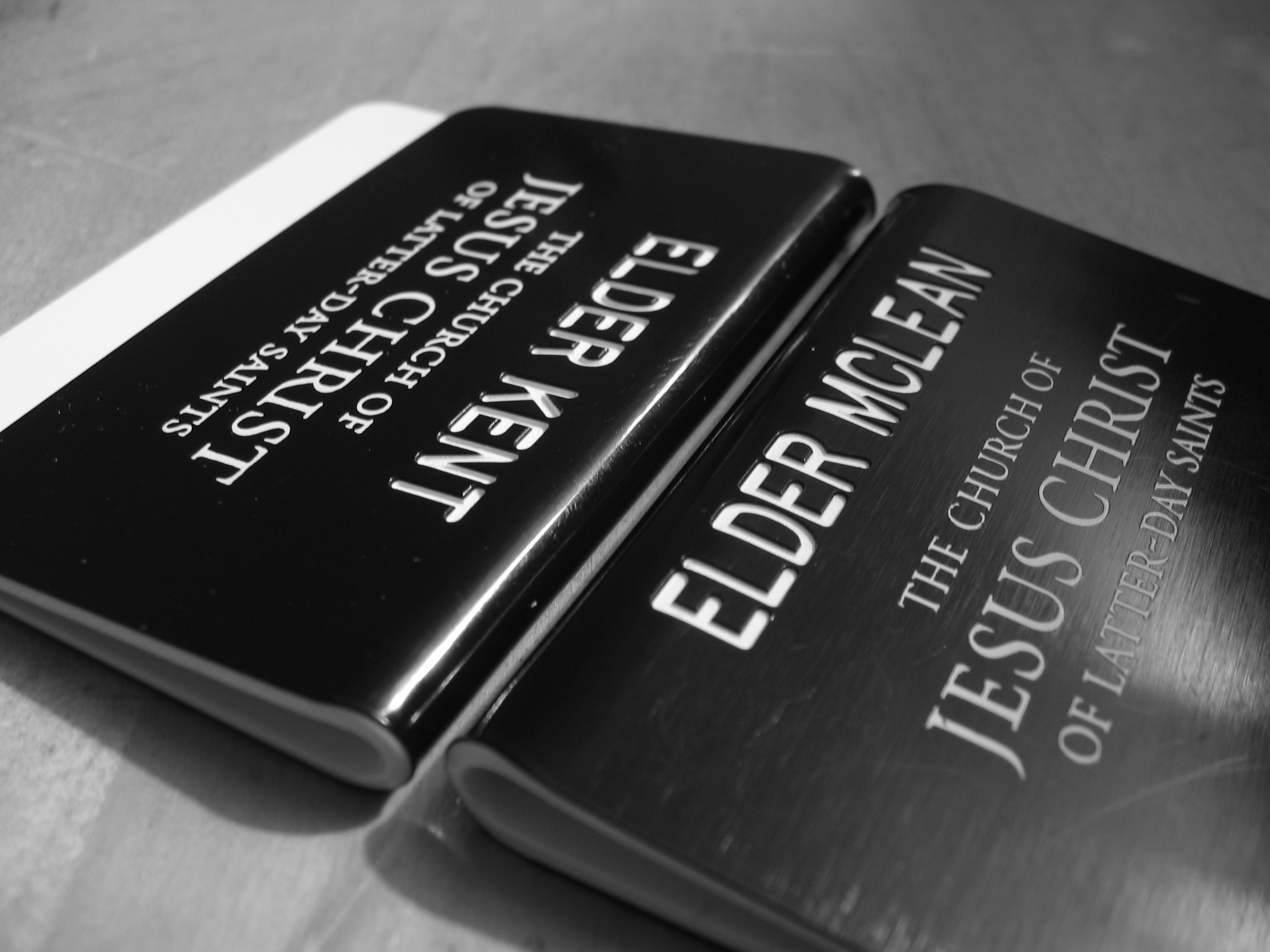 Name tags of two Missionary (LDS Church)Missionaries of The Church of Jesus Christ of Latter-day Saints. Created by Saaby.